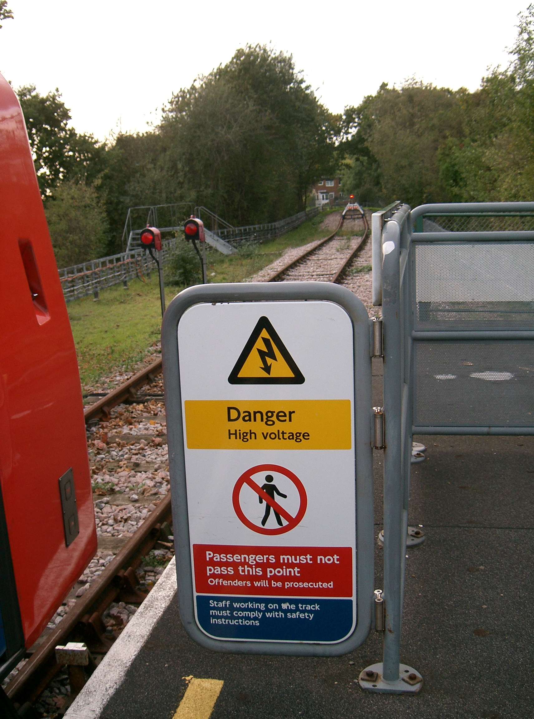 The buffer stops at Mill Hill East station - originally the line extended to Edgware but in the 1960's it was closed and the track was lifted. Nowadays part of the former trackbed has been built over.